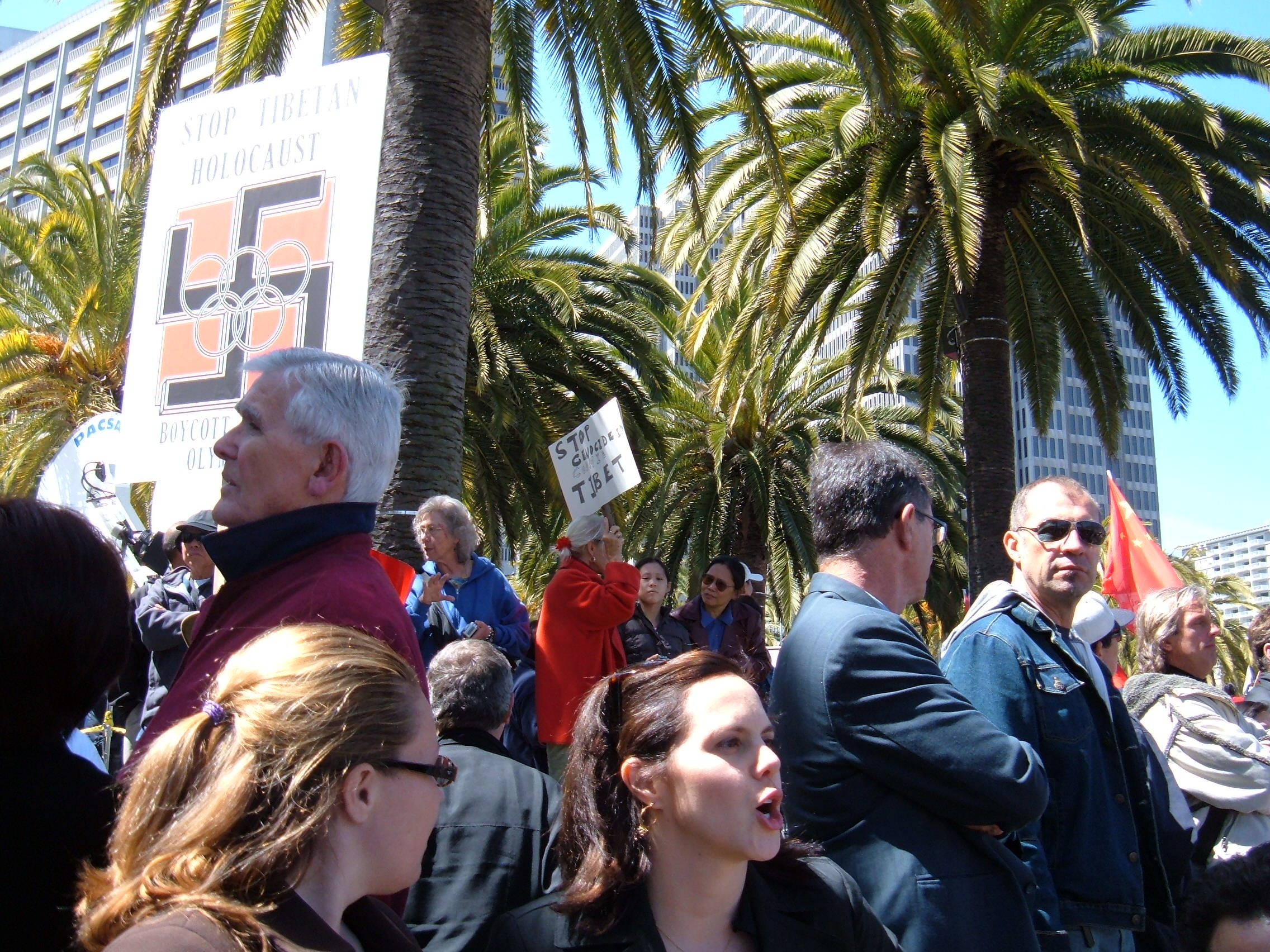 Spectators and protesters gathered along the southbound lanes of The Embarcadero during the relay. For an explanation and additional photos of my experience during the relay please see User:BrokenSphere/Gallery/San Francisco Bay Area/San Francisco/2008 Olympic Torch Relay. Text: "Stop Tibetan Holocaust"